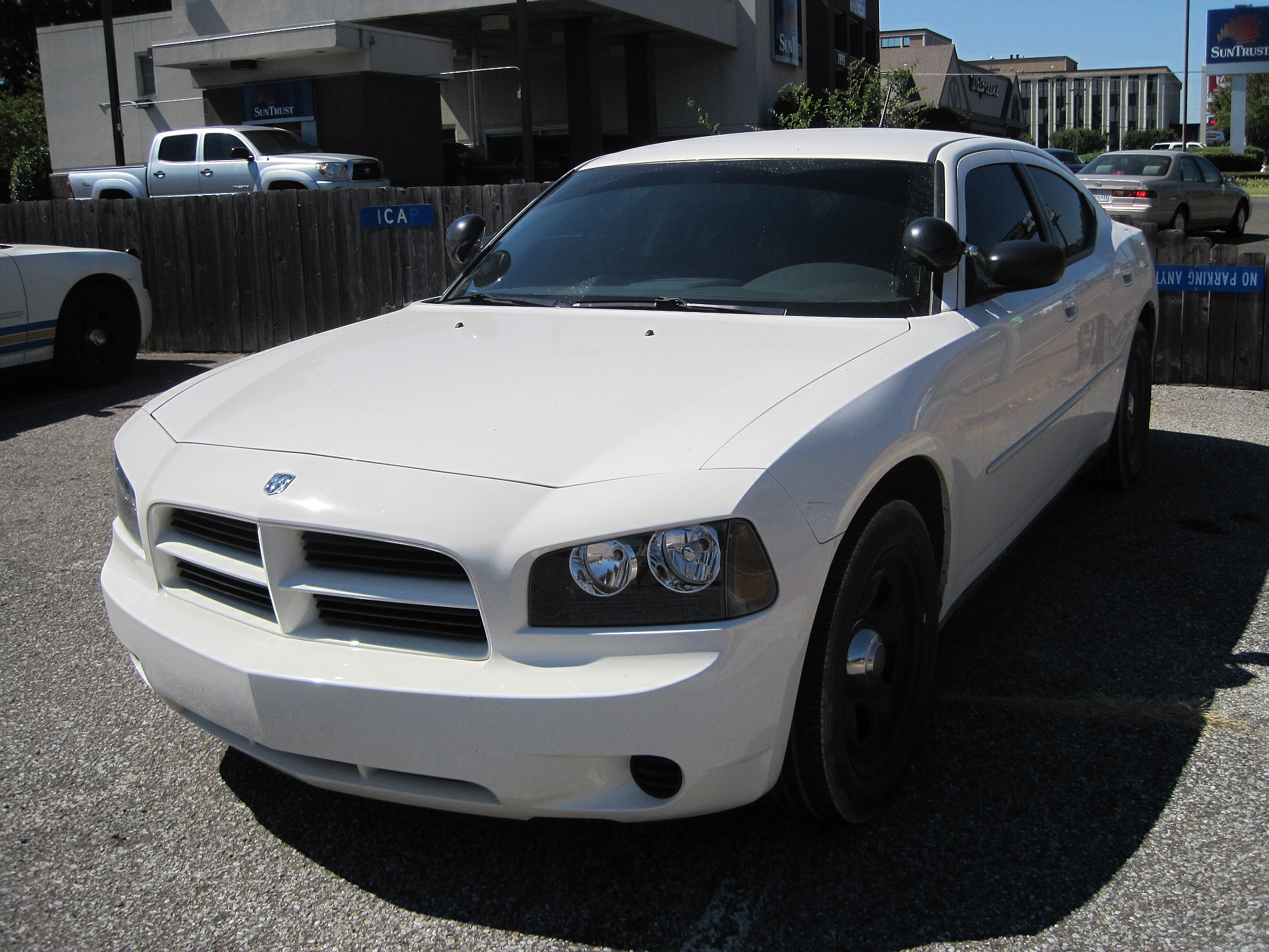 Memphis Police Department Union Station on Union Avenue in Memphis, Tennessee. Unmarked Dodge Charger